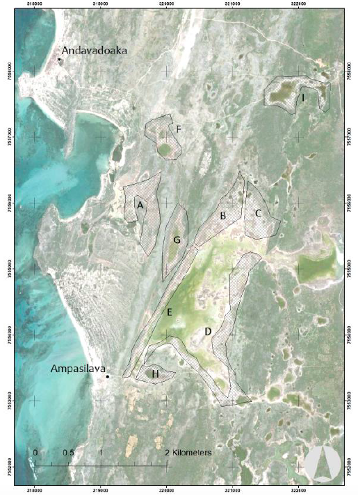 Sites with known conservation and research efforts, Eberhart-Phillips et al., 2015